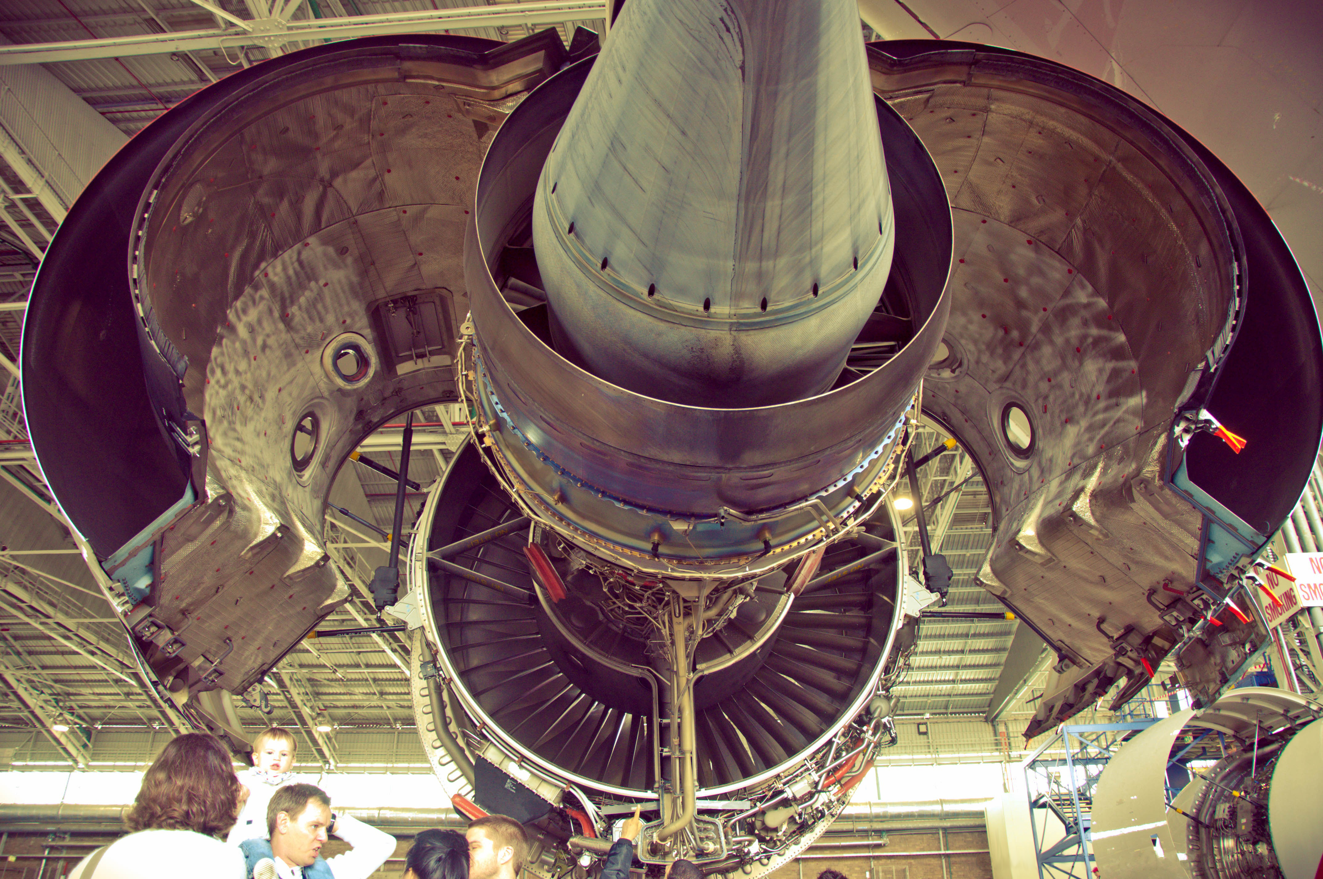 Qantas 90th Birthday A380 Engine Back Wings